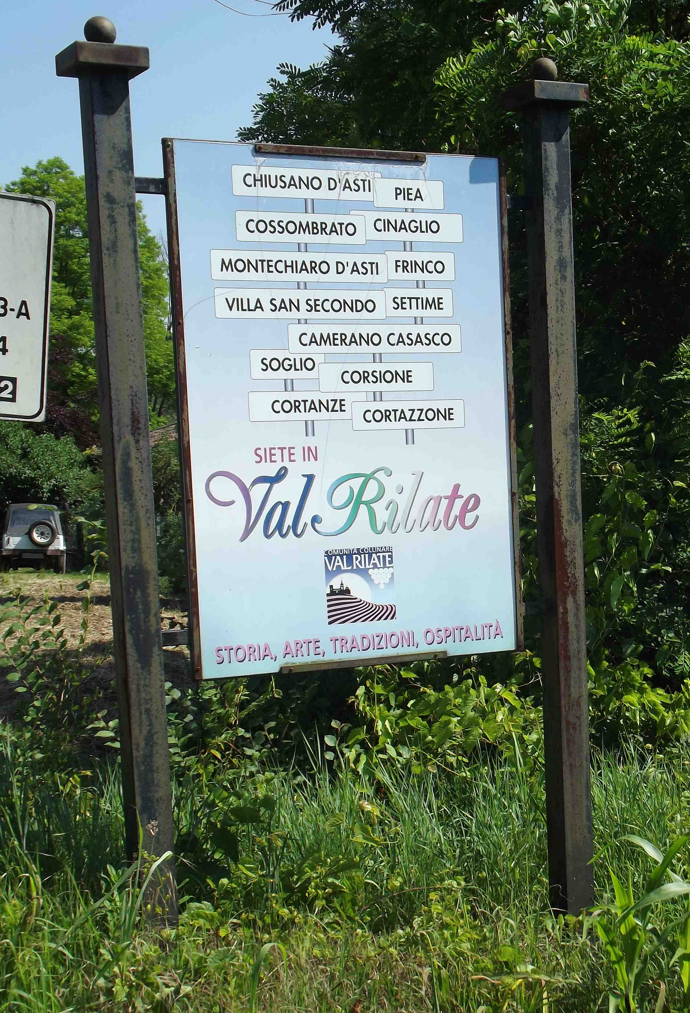 Road sign at the border of the Comunità collinare Val Rilate (Italy, AT)